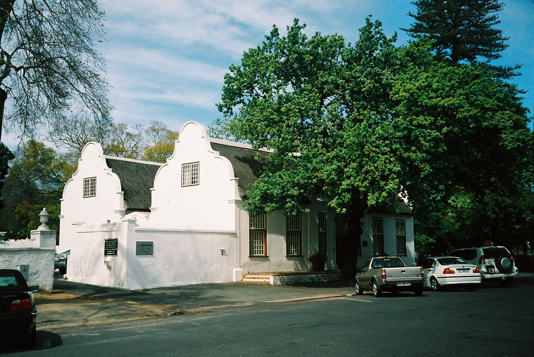 six pediment house in Stellenbosch